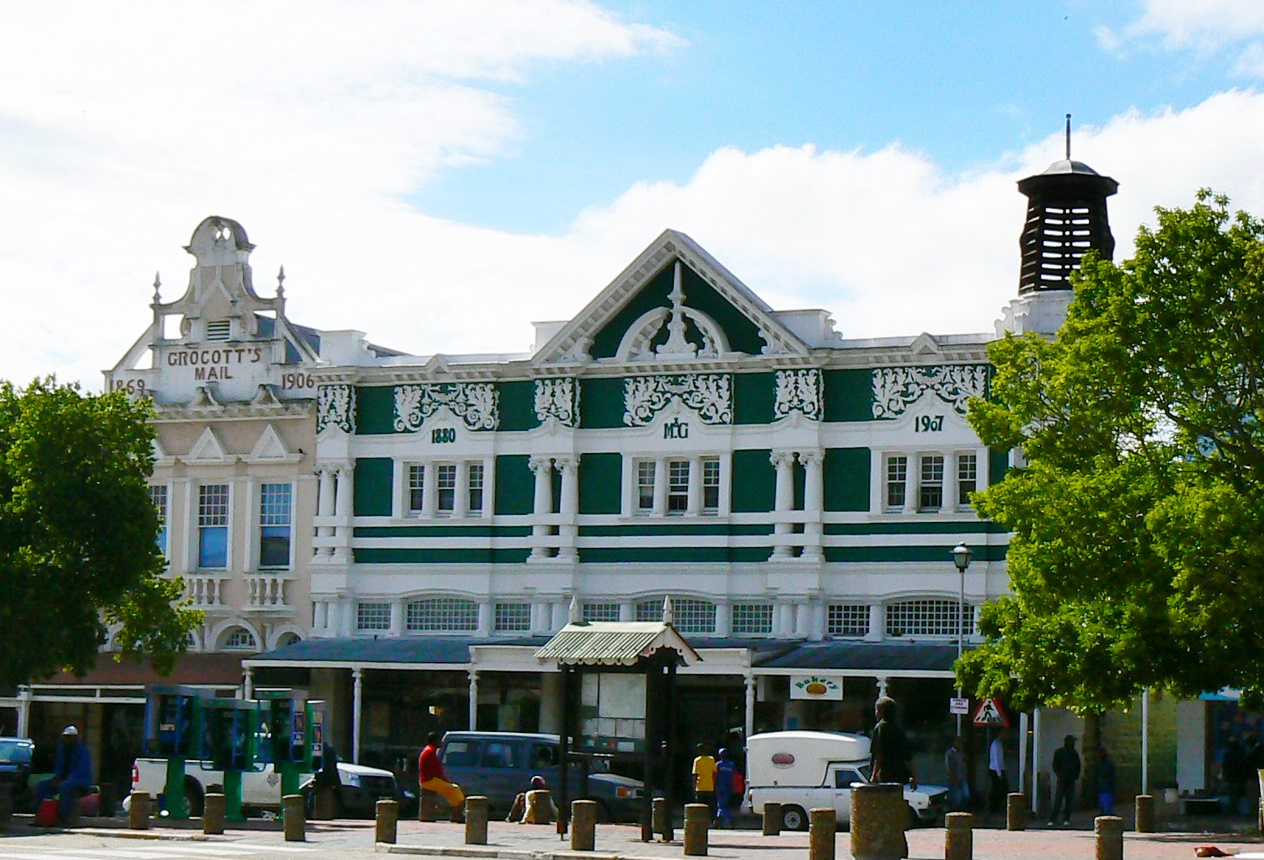 Grocott's Mail, 40 High Street, Grahamstown. The gable of this impressive building, with its Victorian and Flemmish faetures, bears the dates 1869 to 1906. The present facade was added in 1906 after the devastating fire. The building forms an integral part of the architectural character of High St This media shows a South African Protected Site with SAHRA file reference 9/2/003/0050.